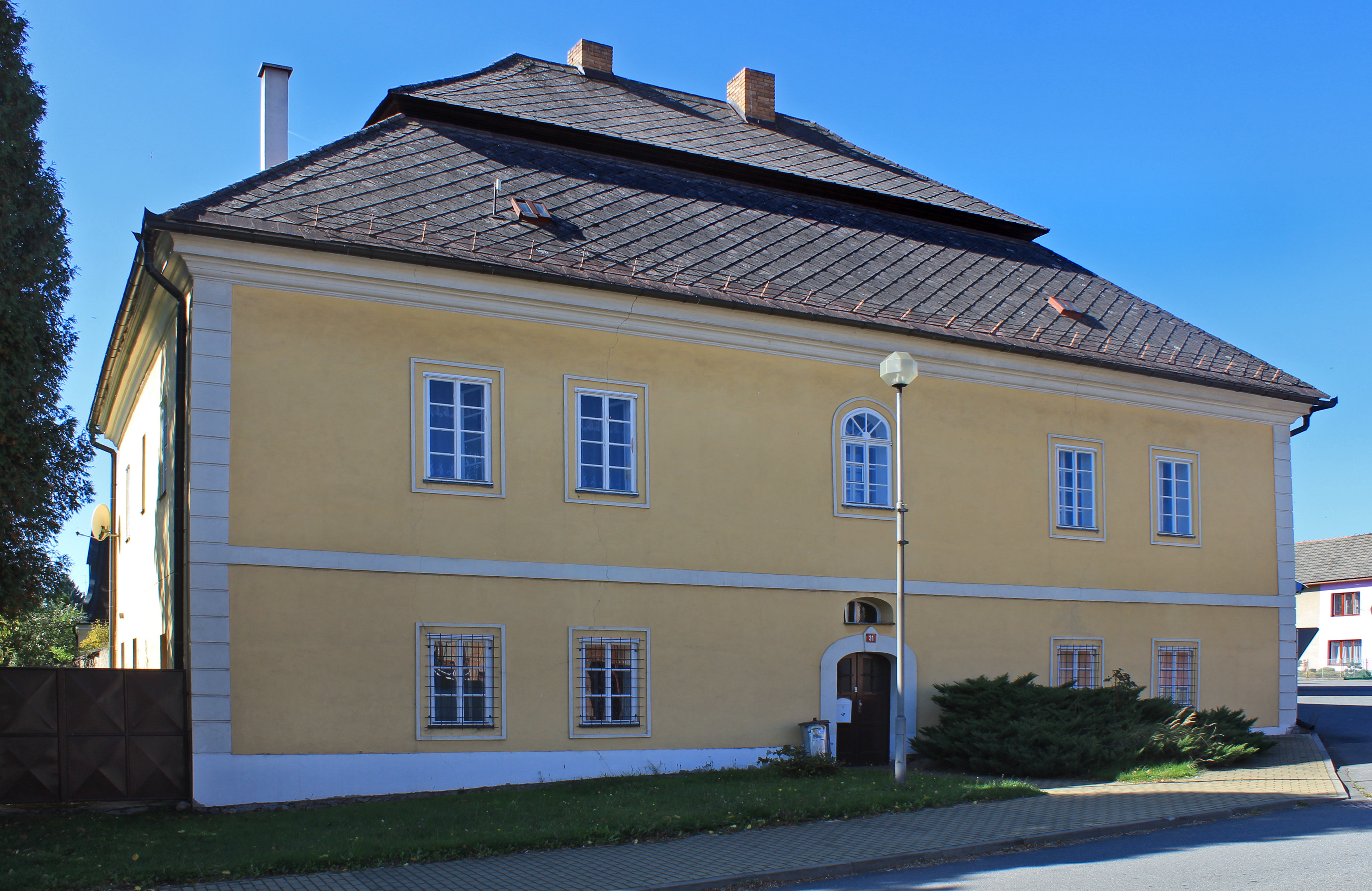 Presbytery in Božejov, Czech Republic.